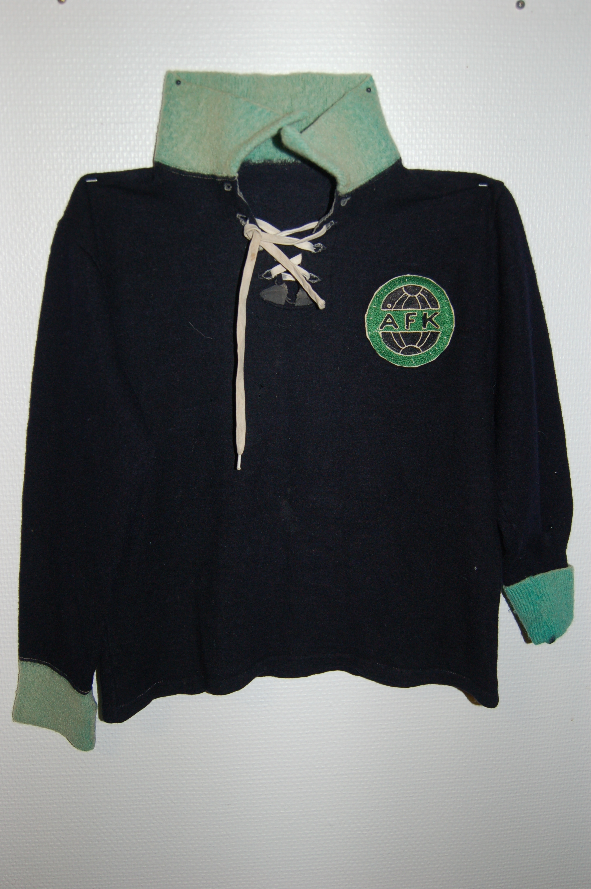 Ålgård FKs shirt made of wool, early 1960s.